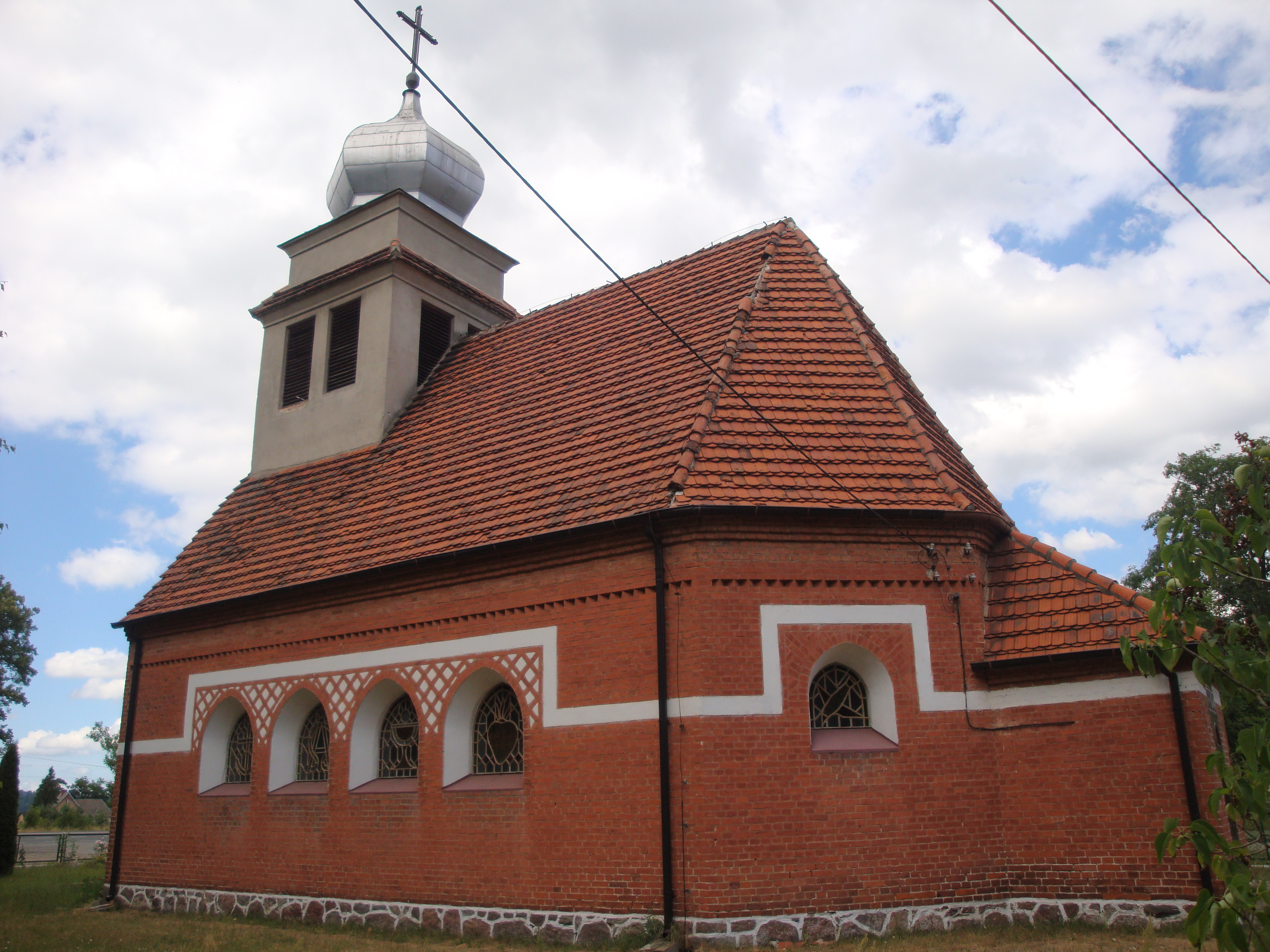 Leśnice-village near Lębork, Poland. Church